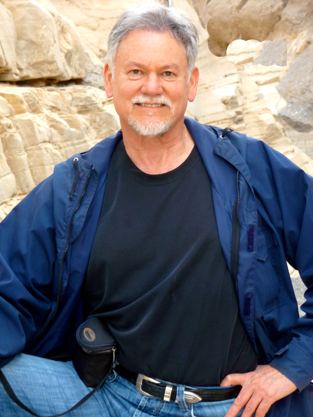 Hiking photo of Warren Farrell